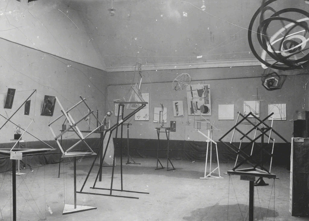 View of Second Spring Exhibition of the OBMOKhU. Bolshaia Dimitrovska, Moscow, 1921. In 1921 the Constructivists expressed their ideas at an ambitious Moscow exhibition under the umbrella of The Society of Young Artists (Template:Lang-ru abbreviated to ОБМОХУ/OBMOKhU, ru, de). Johannson's nine three-dimensional structures, "self-stressed constructions", exhibited innovative tension-integrity strain-stress principles of tensegrity.